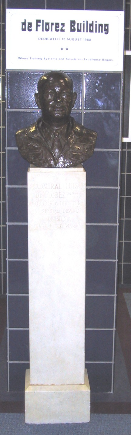 de Florez Building memorial at Naval Air Warfare Center Training Systems Division (NAWC-TSD), 12350 Research Parkway, Orlando, Florida. This is a bust of Luis de Florez. The inscription on the pedestal reads: ADMIRAL LUIS DE FLOREZ U.S.N.R. FOUNDER & DIRECTOR OF SPECIAL DEVICES DIVISION U.S.N. WORLD WAR II